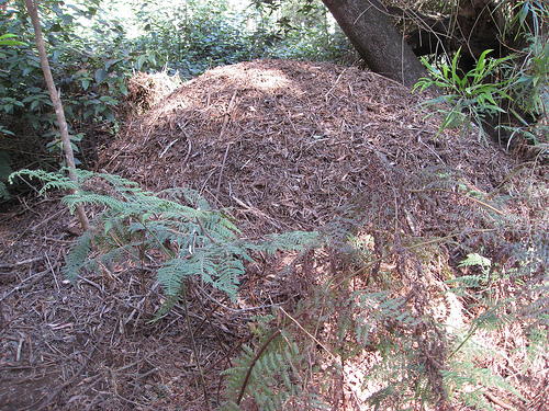 Brush turkey mound